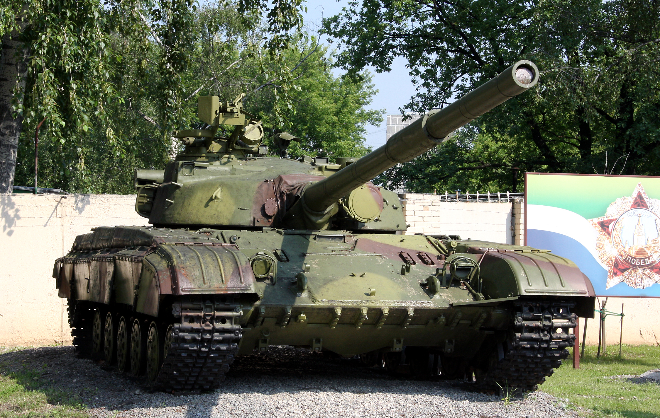 T-64A in Moscow Suvorov Military School armored vehicles and tanks collection